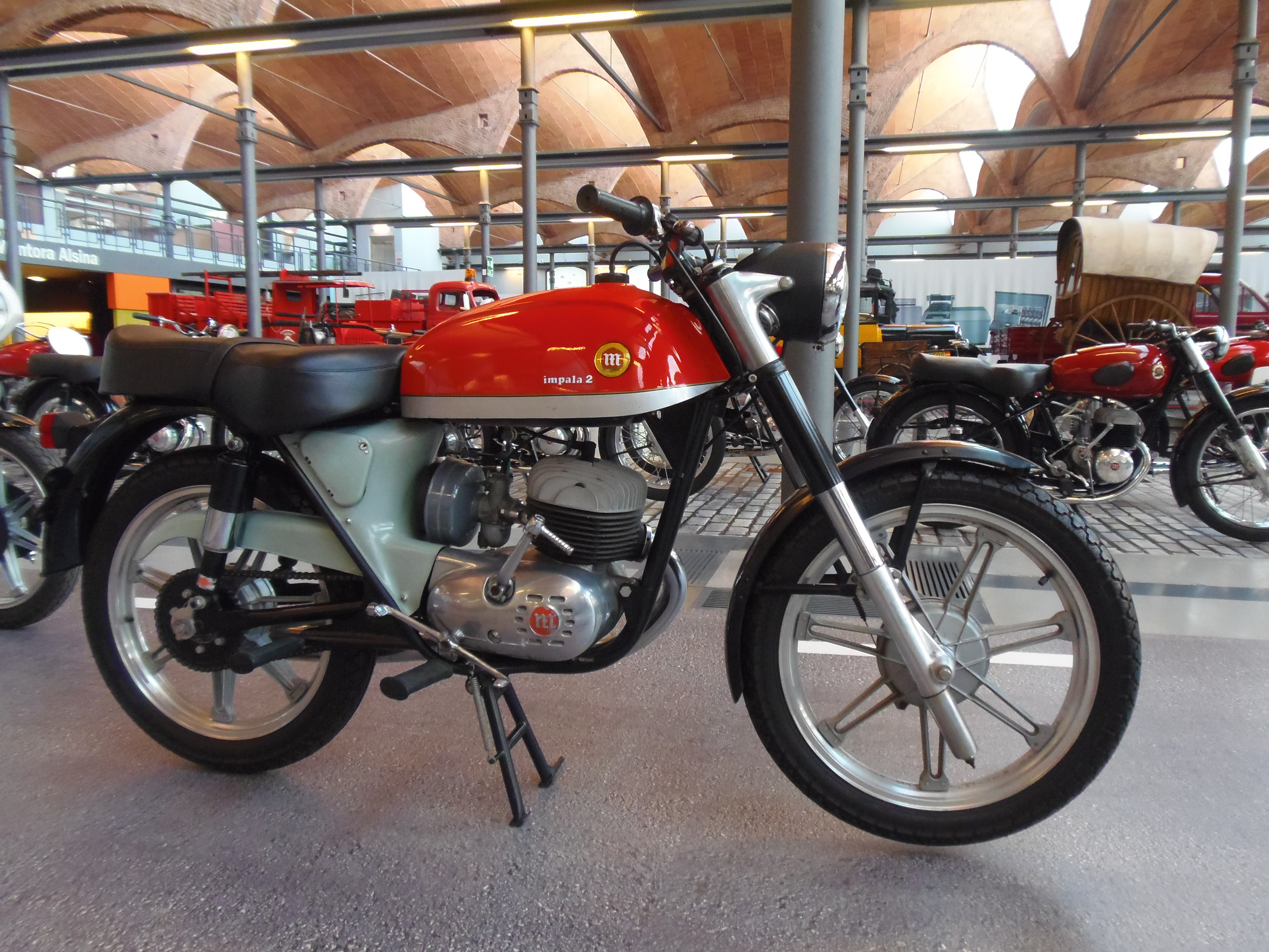 Montesa Impala 2, 1982